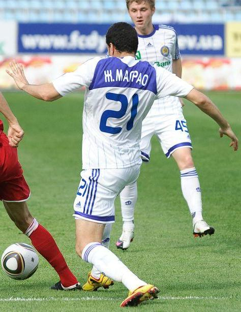 Gérson Alencar de Lima Júnior (left) and Vladyslav Kalytvyntsev (right) during the game for Dynamo Kyiv